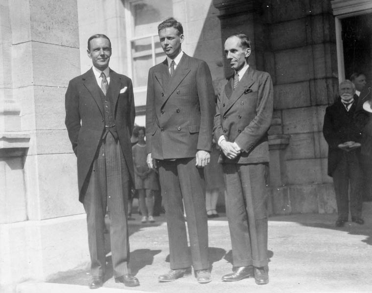 Charles Lindbergh (centre) with Hon. William Phillips (left) and Hon. Vincent Massey (right) in 1927 in Ottawa, presumably after Lindberg's flight accross the Atlantic.